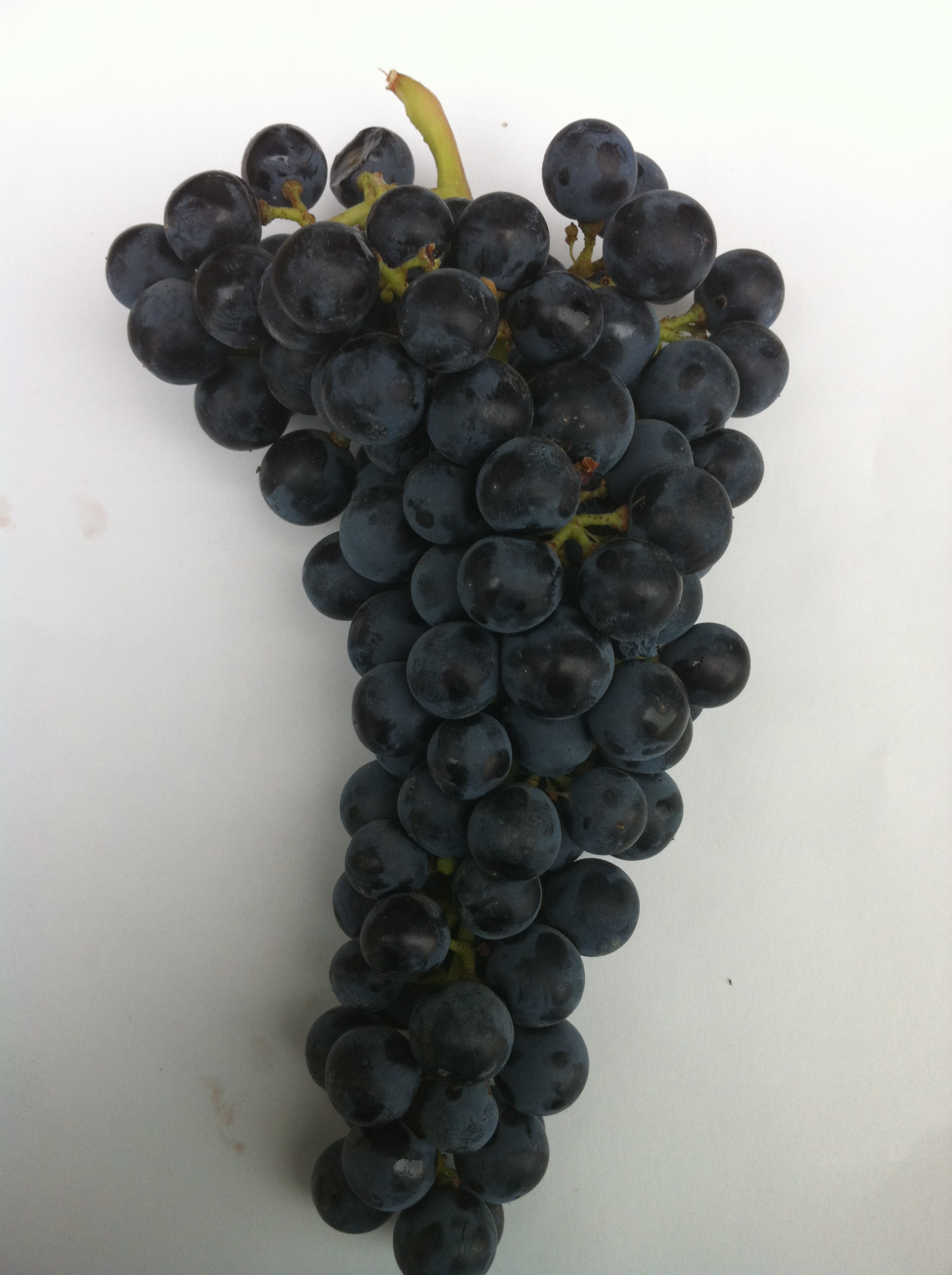 Merlot cluster